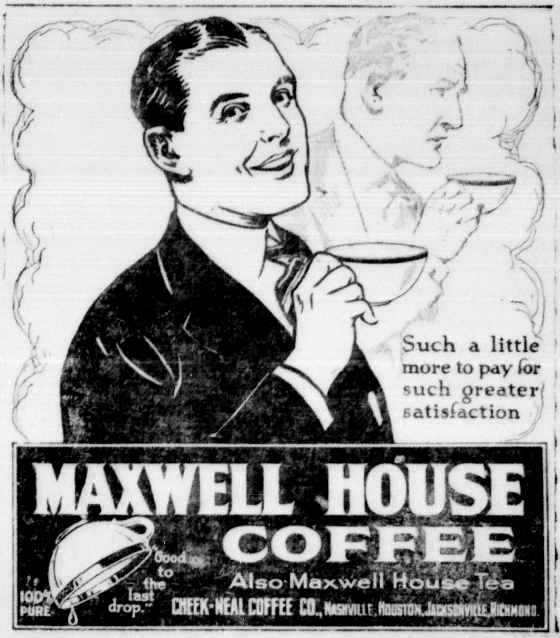 Newspaper advertisement for Maxwell House coffee from 1921. Copied from the PDF file shown in the link, harpened and lightened with GIMP.